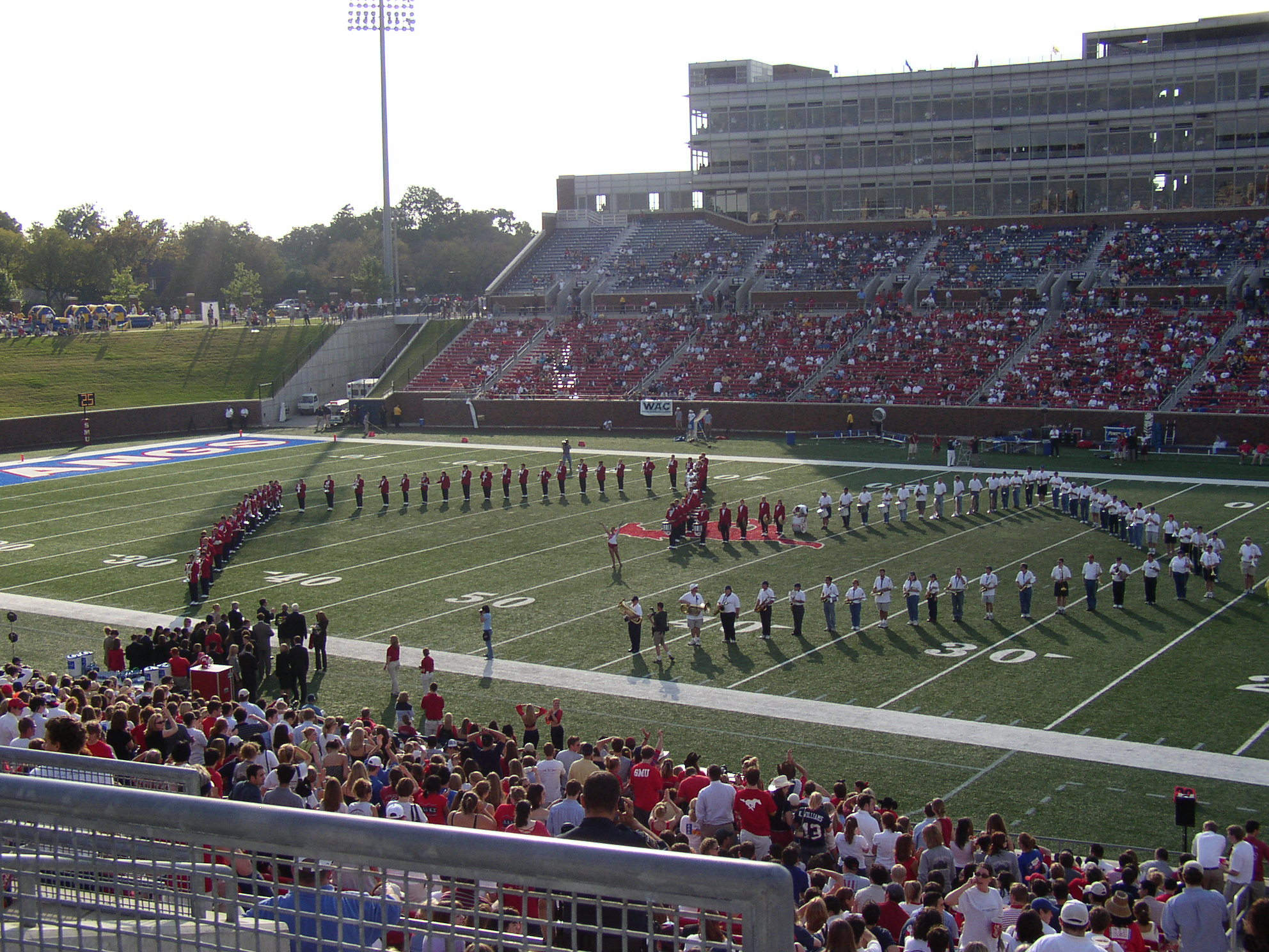 Diamond M halftime formation with combined SMU Mustang Band and SMU Alumni Band